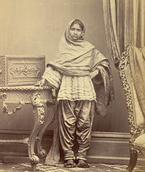 Full-length standing studio portrait of a Muslim girl from Karachi in Sind, Pakistan, taken by Michie and Company in c. 1870, from the Archaeological Survey of India Collections. This is one of a series of photographs commissioned by the Government of India in the 19th century, in order to gather information about the dress, customs, trade and religions of the different racial groups on the sub-continent. The girl in the photograph demonstrates the method of wearing ear and nose rings, bracelets and anklets.